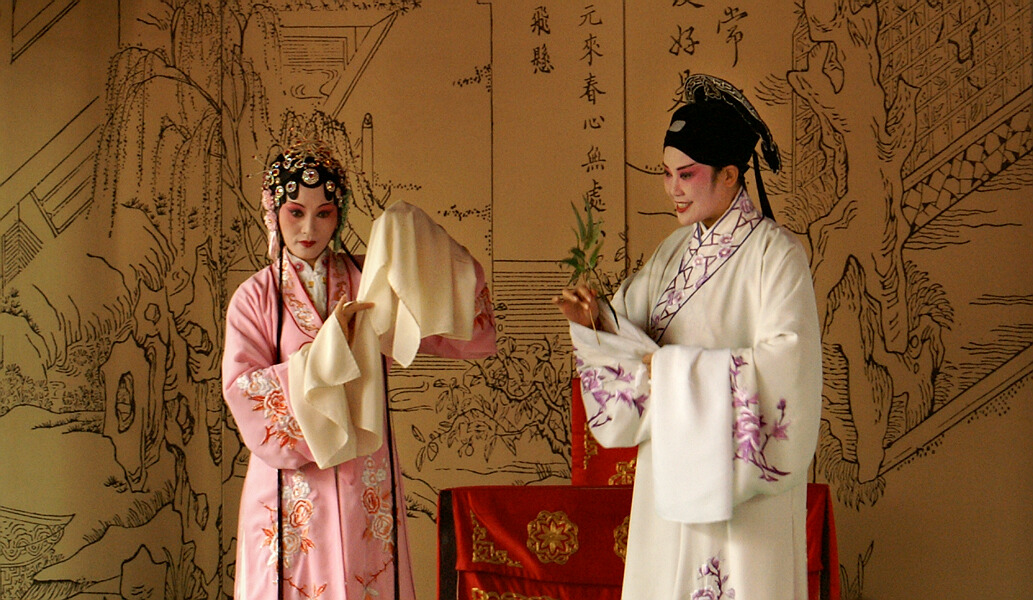 Kunqu, scene of "Mudanting", photo taken in the Liu Garden in Suzhou.